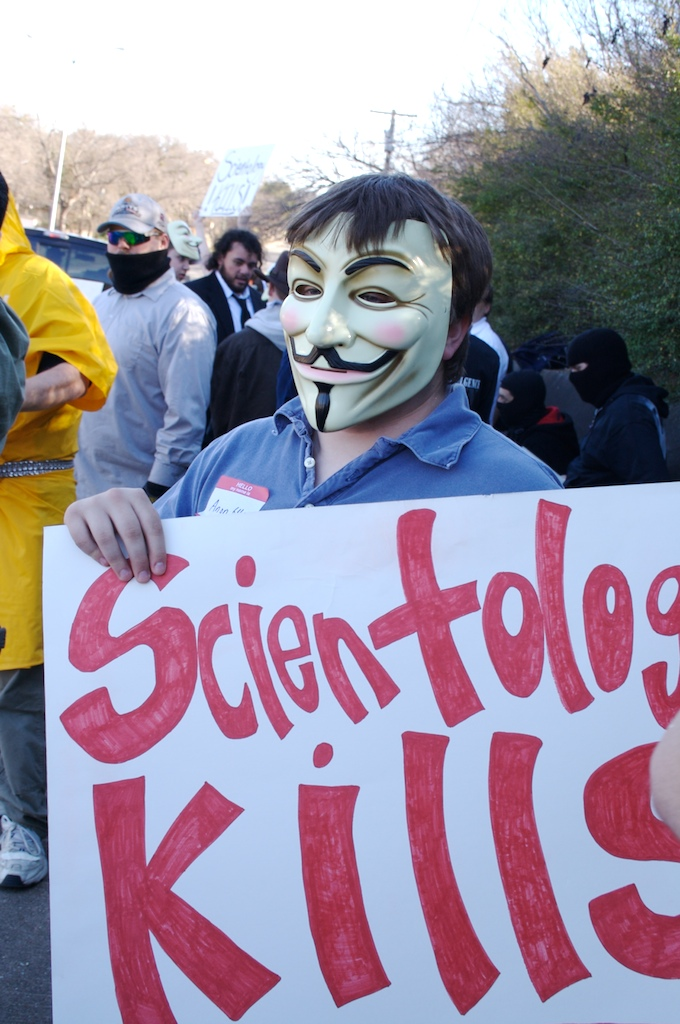 Dallas Scientology protest.